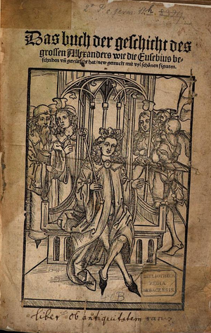 Das buch der geschicht des grossen Allexanders, 1514, Johannes Hartlieb (1400-1468)